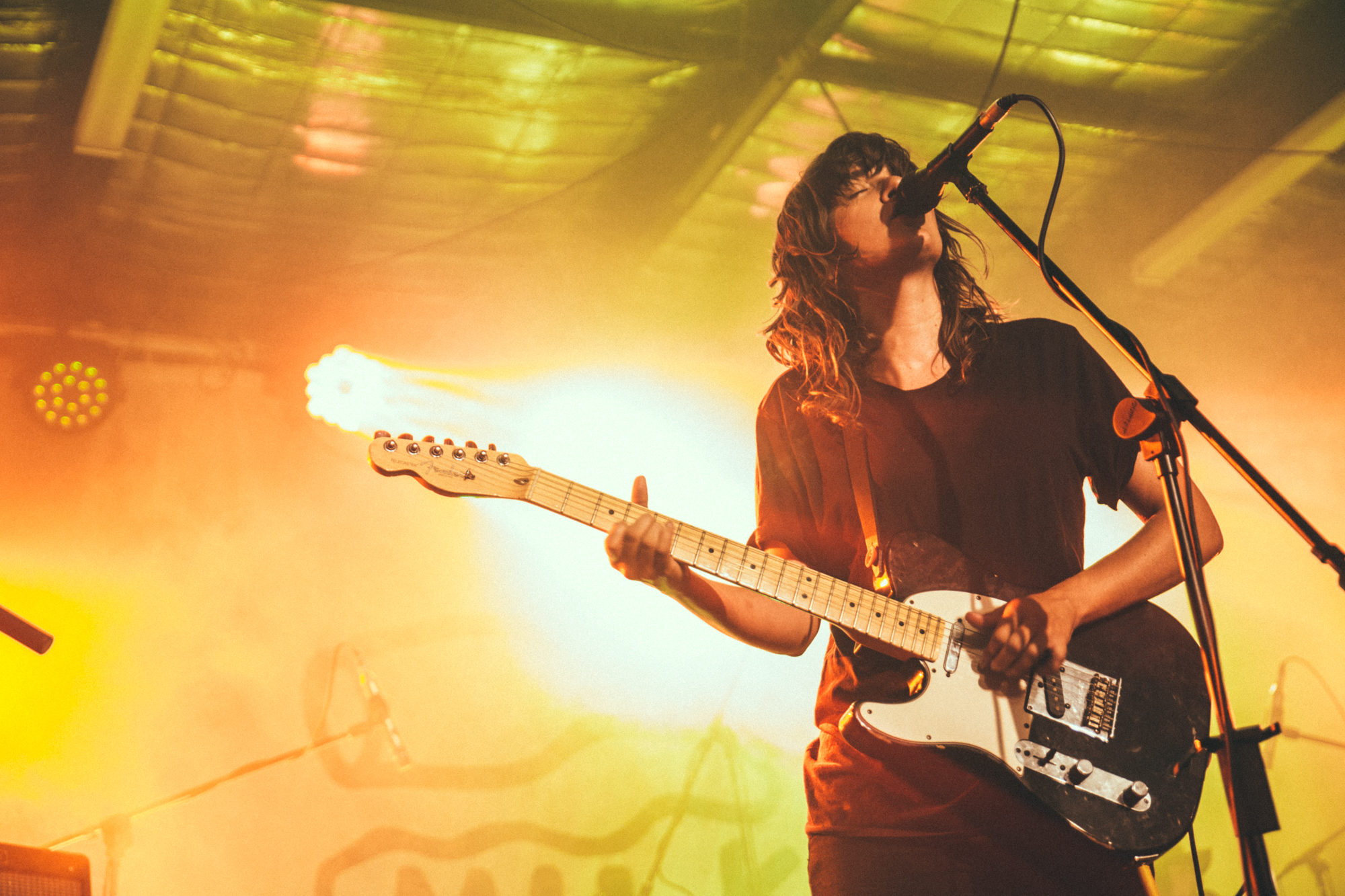 Courtney Barnett plays a rockin' set at Miami Marketta Check out the rest of the photos here: Flickr